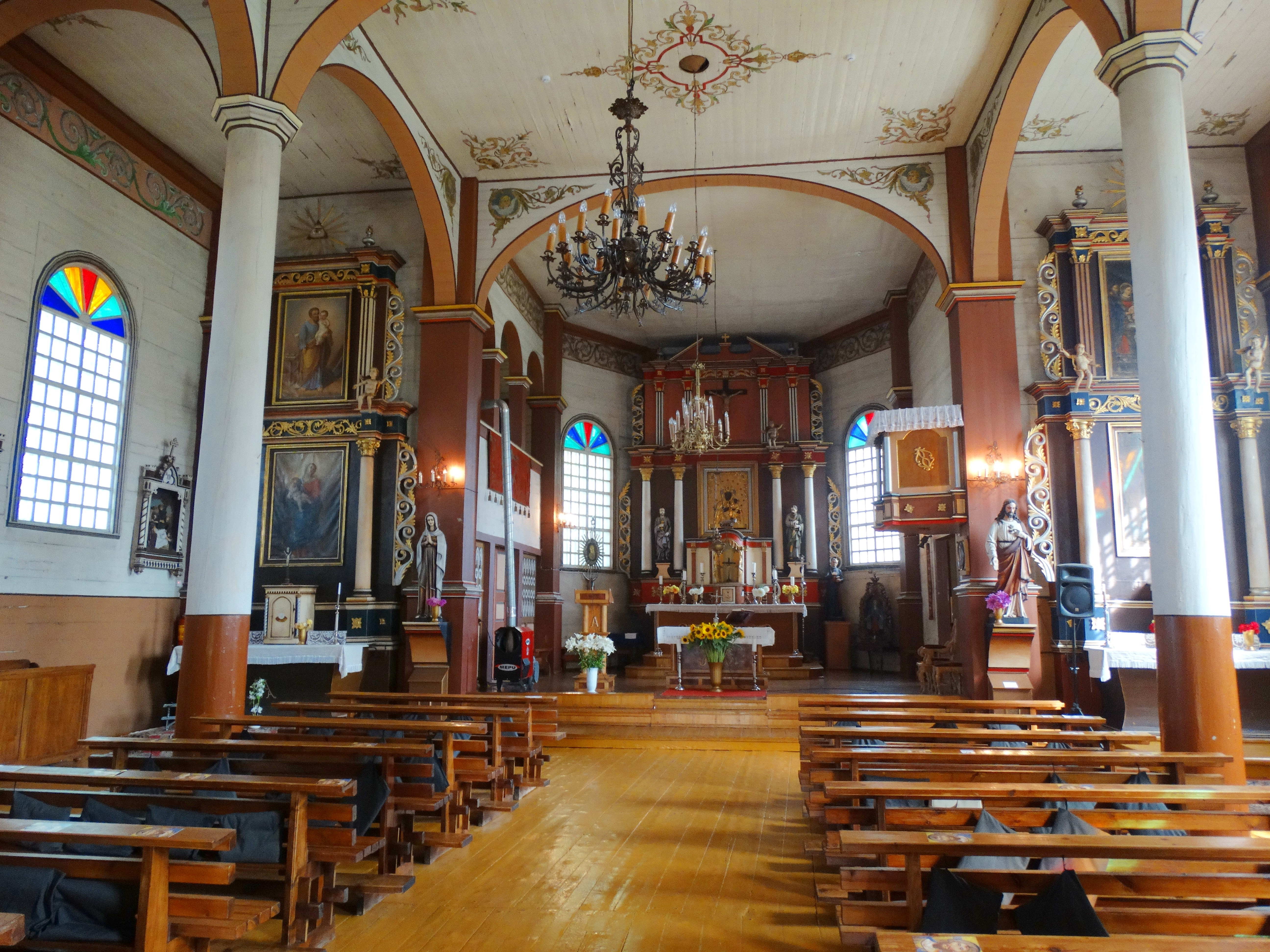 Church interior, Babtai, Lithuania